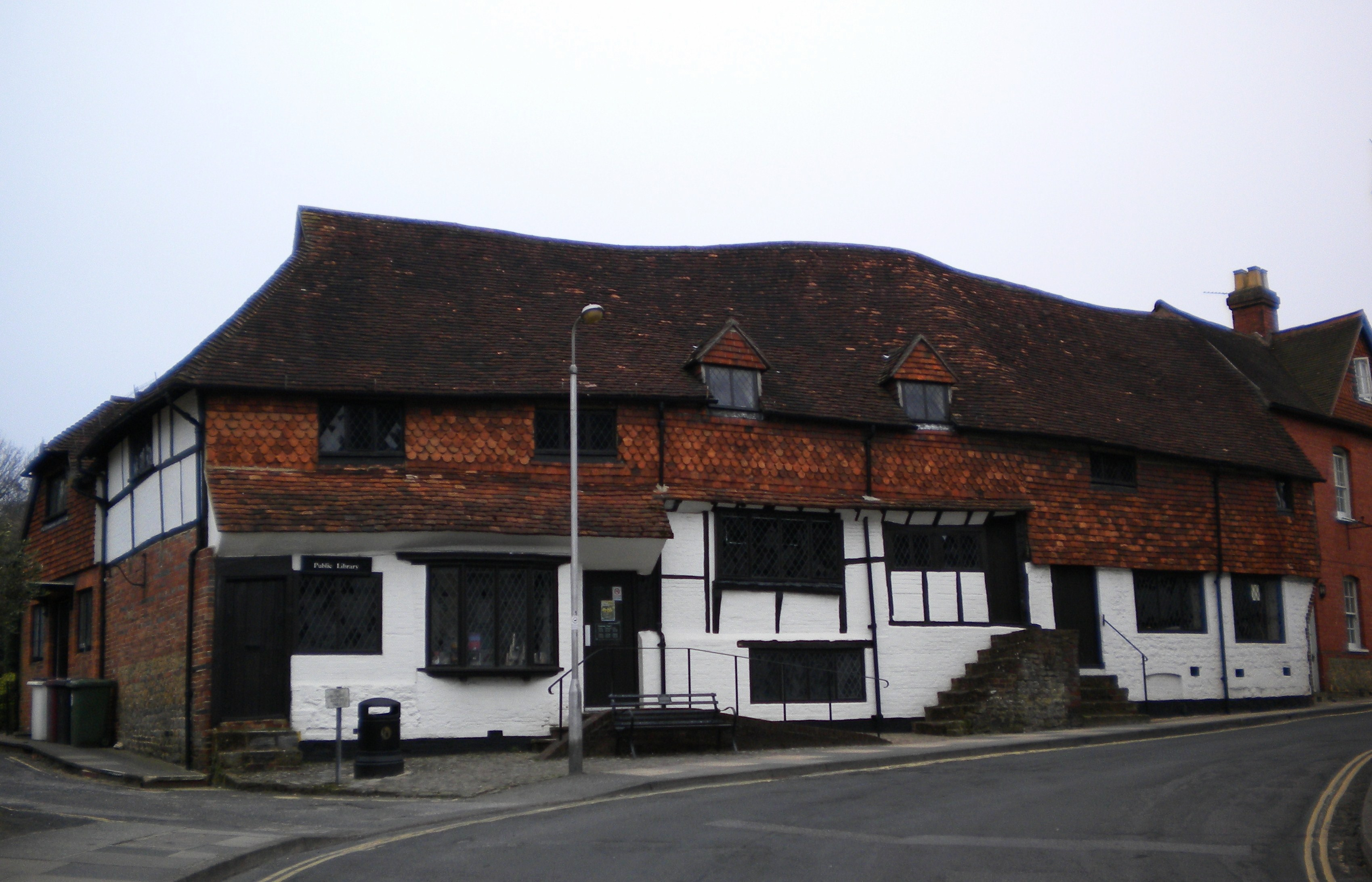 The library in Midhurst, West Sussex, England.